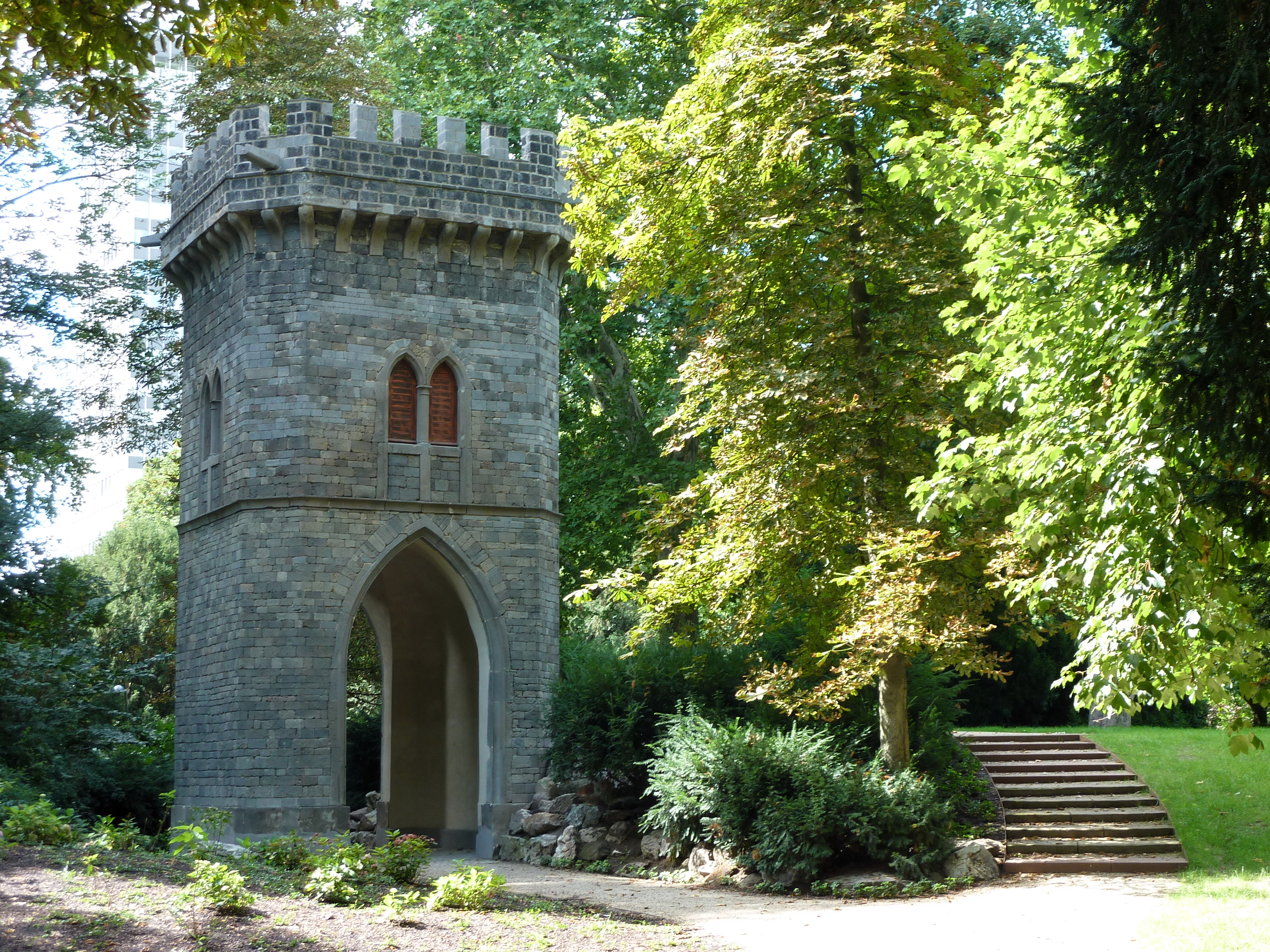 Frankfurt/M., Germany: Mock medieval garden tower belonging to the Rothschild Palais in the Westend quarter, nowadays on the public ground Rothschildpark. The tower is the only building that remained intact after a bombing raid in 1944